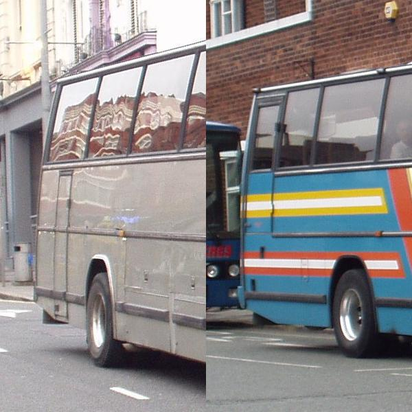 Comparison of offside rear of Plaxton Paramount coaches, showing (left) the "Continental Door" which allows safe and convenient boarding and alighting in a foreign country having the opposite "rule of the road" from the vehicle's home country; and (right) standard emergency exit door at saloon floor level.